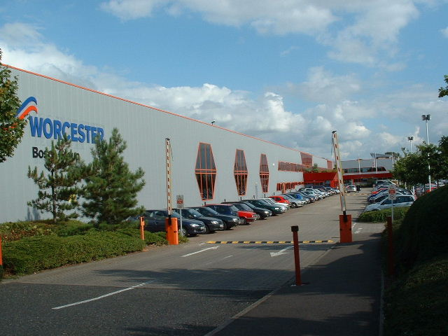 Worcester Bosch. Factory Units north of the B4639